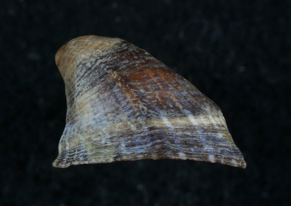 Siphonariidae: Siphonaria lessoni